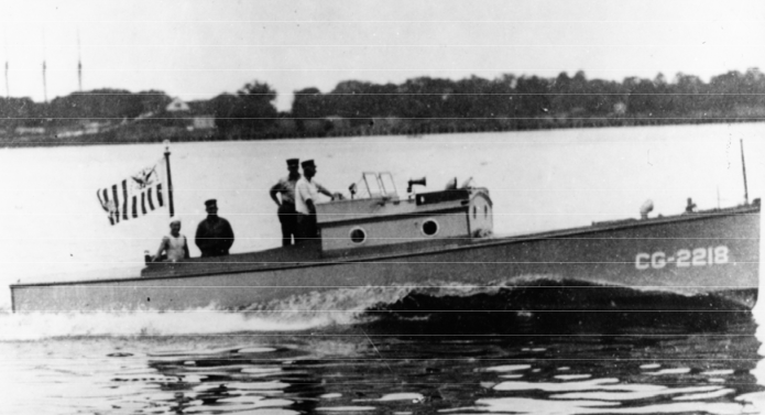 B&W photo, probably from the 1920s, of a 36 foot single cabin coast guard picket boat (a type of motor launch)